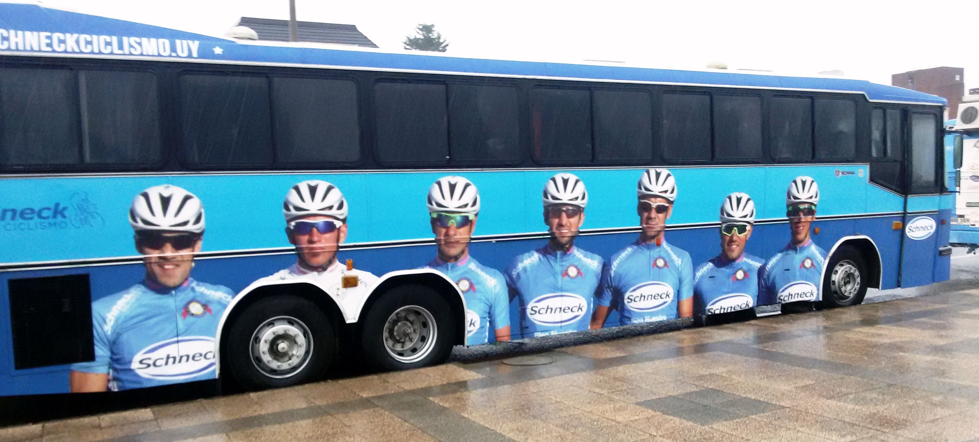 Team bus Schneck Ciclismo by Alas Rojas used in the Vuelta del Uruguay 2016. From left to right: Richard Mascarañas, Robert Méndez, Jorge Bravo, Nicolás Arachichú, Néstor Pías, Héctor Fabián Aguilar, Carlos Cabrera.